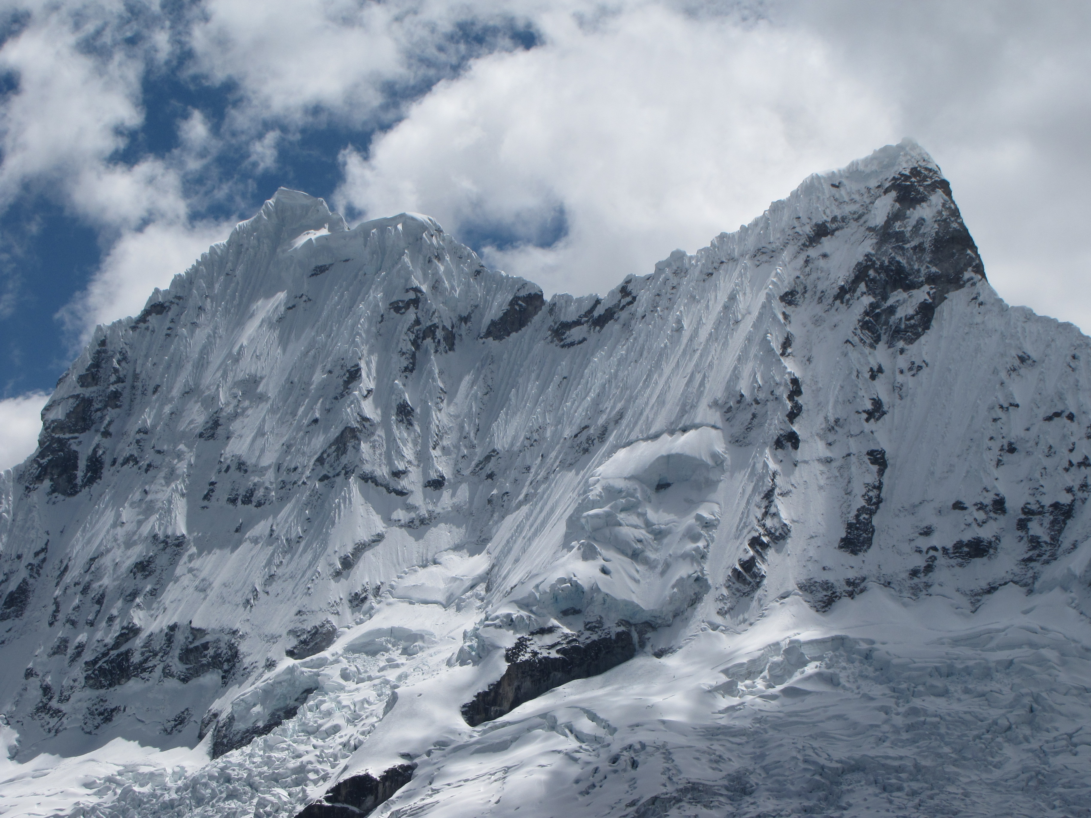 Mount Chacraraju in Peru